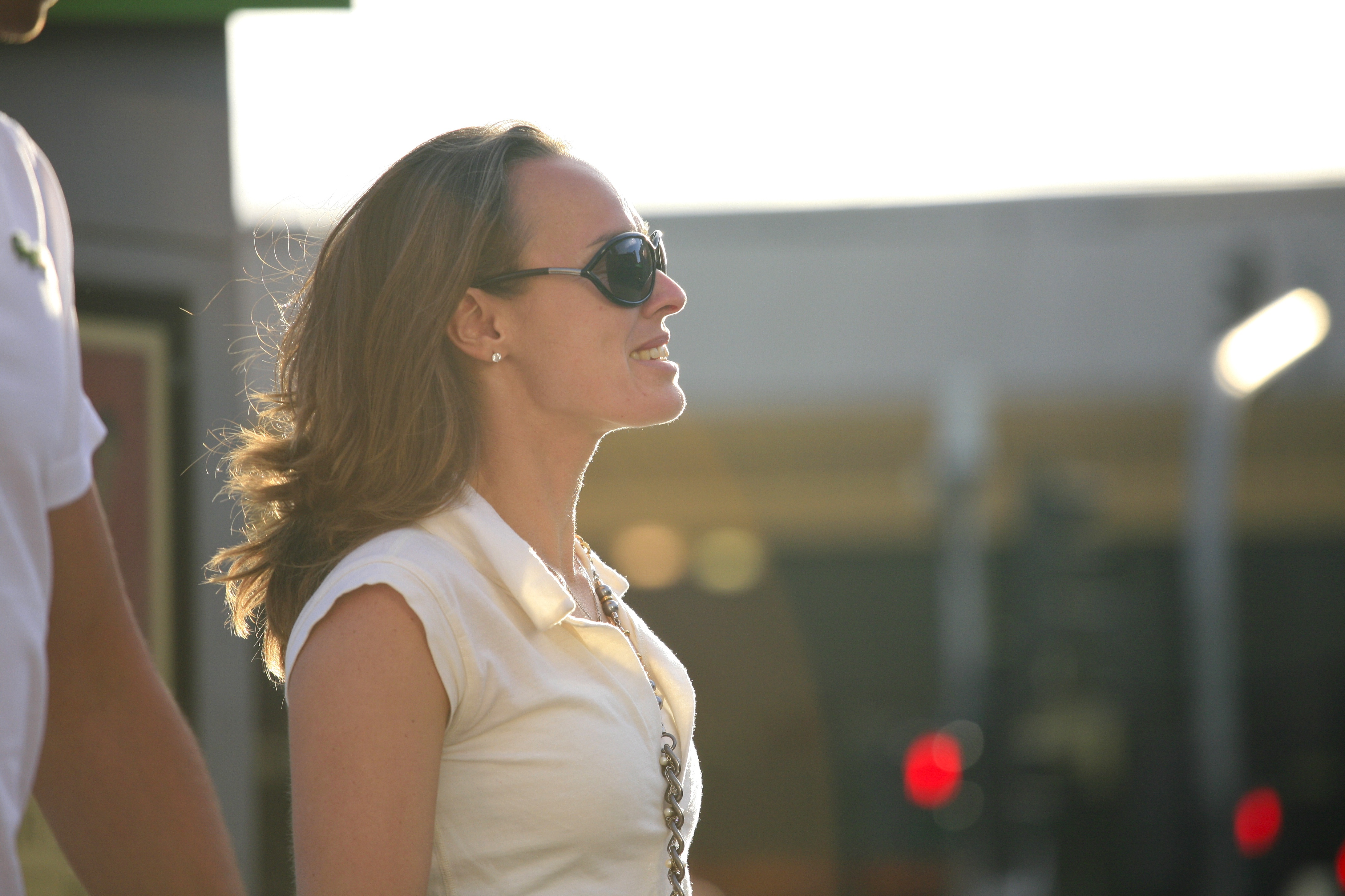 Hingis in Melbourne city, 2012